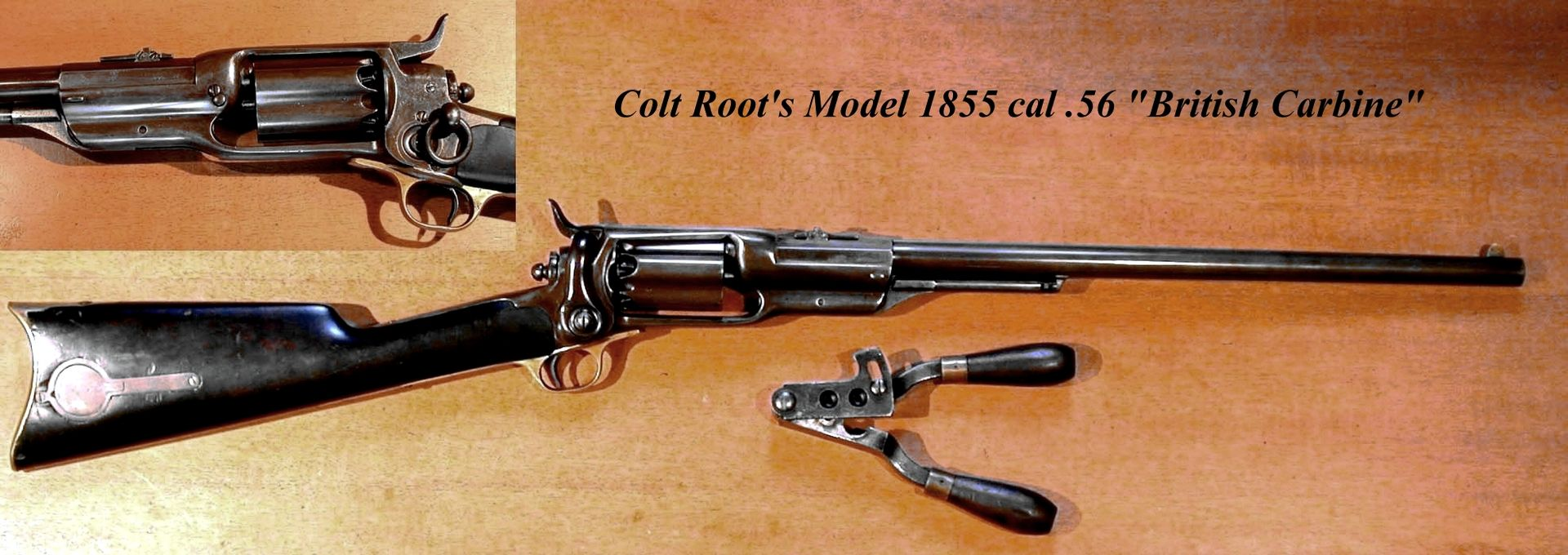 Colt British M55 Carbine